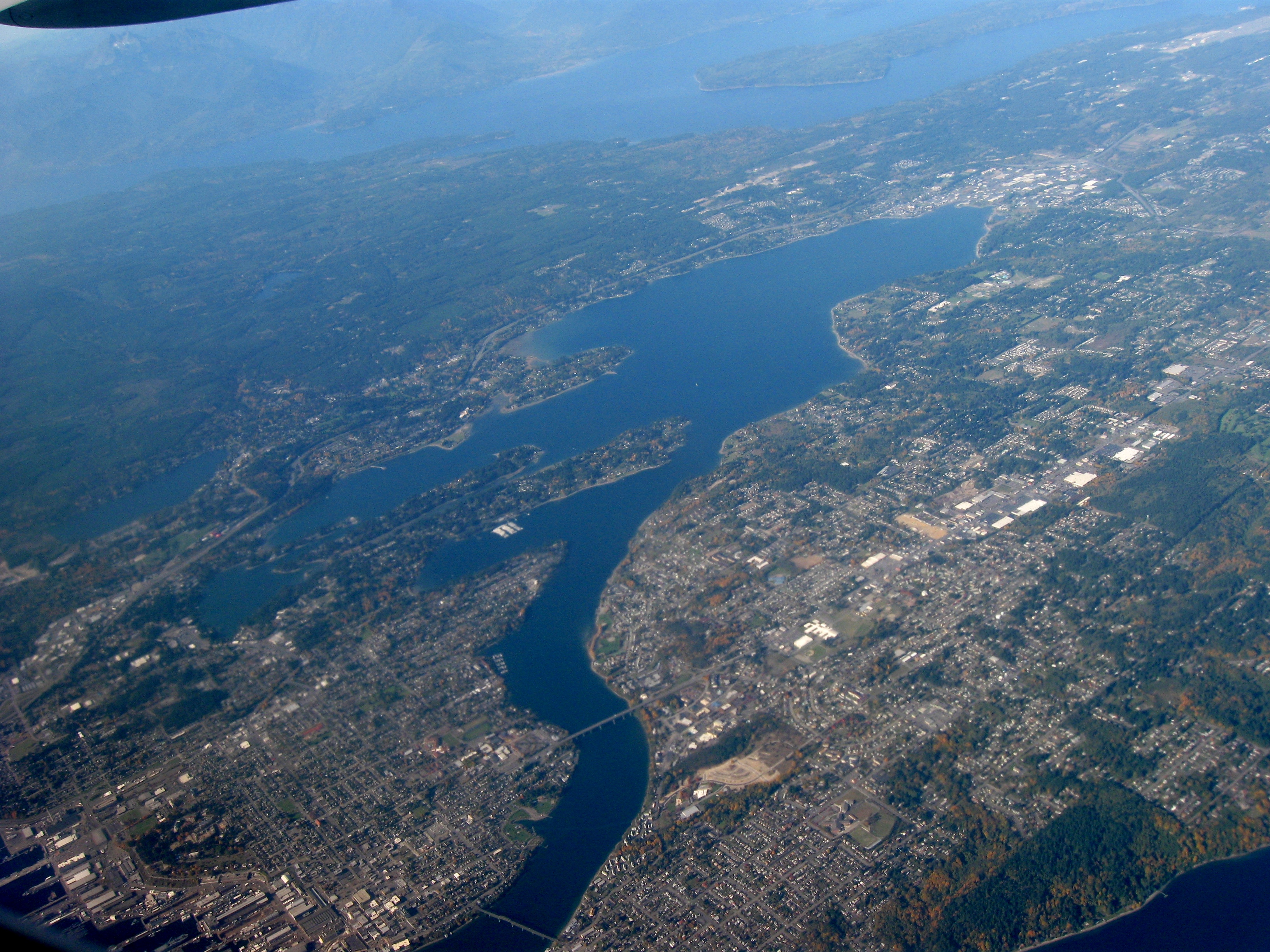 Dyes Inlet is the body of water top center, Bremerton is the city in the lower left. Out over the Olympic Peninsula. Taken by myself from a commercial airliner window.